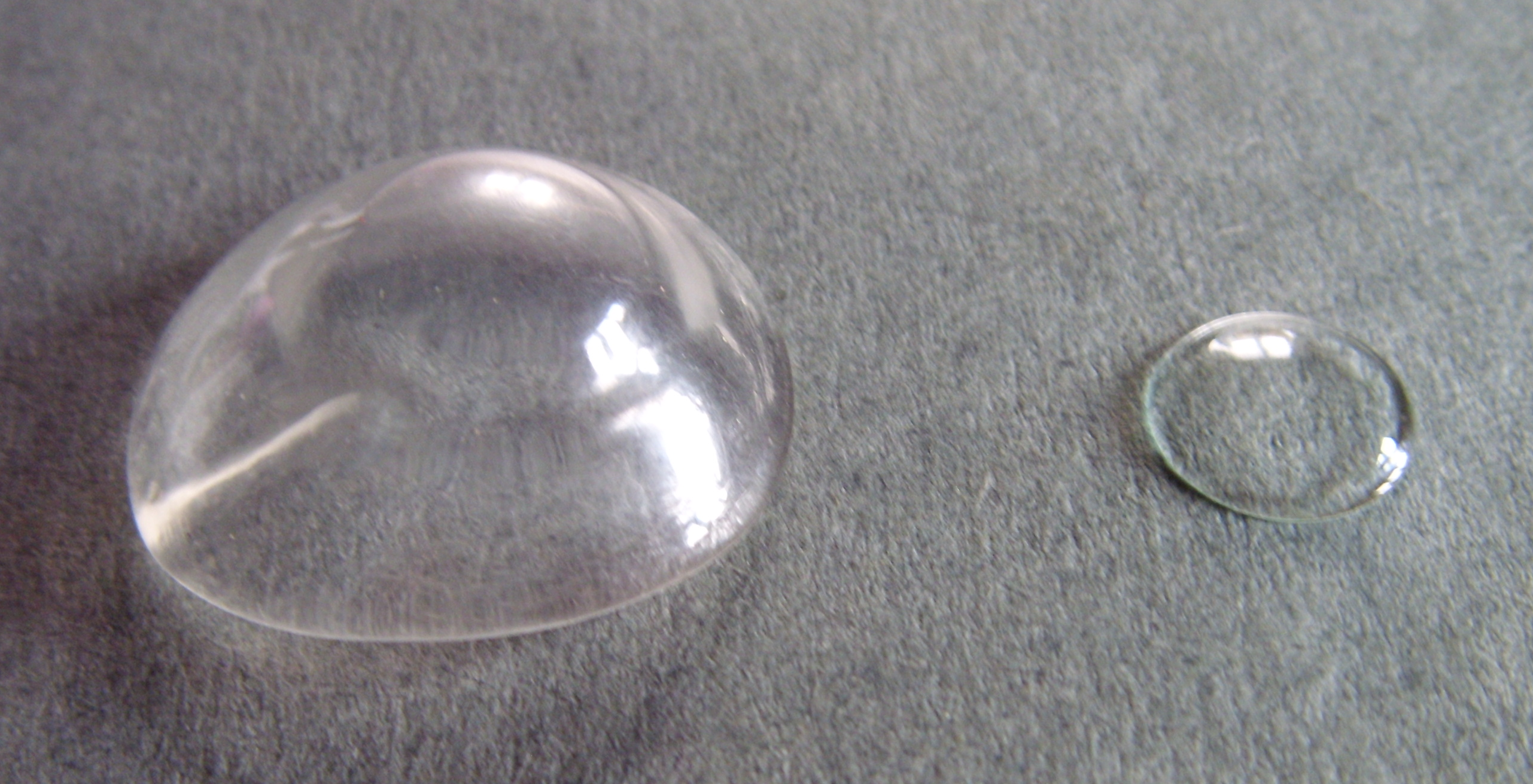 Picture of a contact lens from the 50s compared to a contact lens of the 90s.